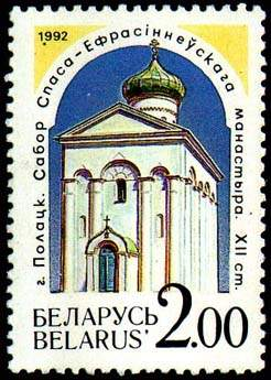 Stamp of Belarus